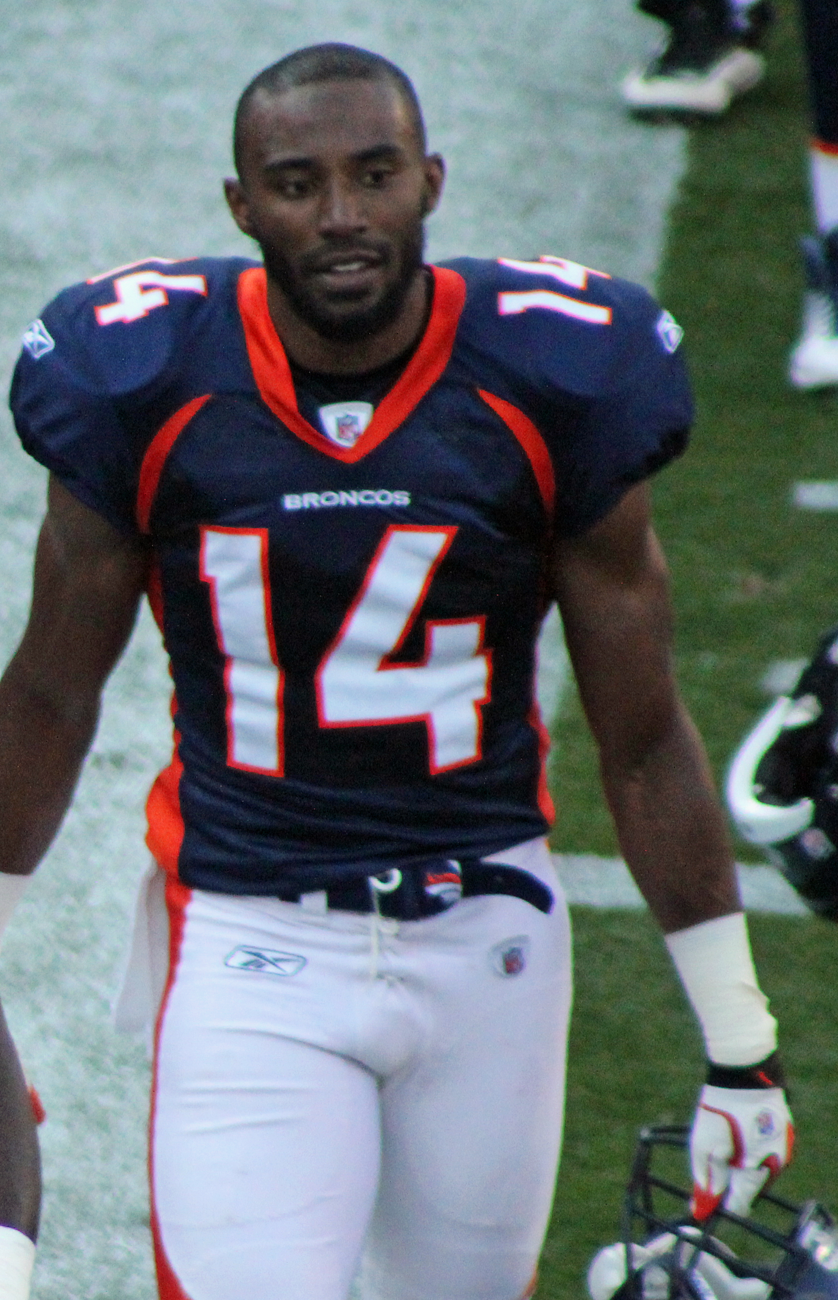 Greg Orton, a National Football League player.